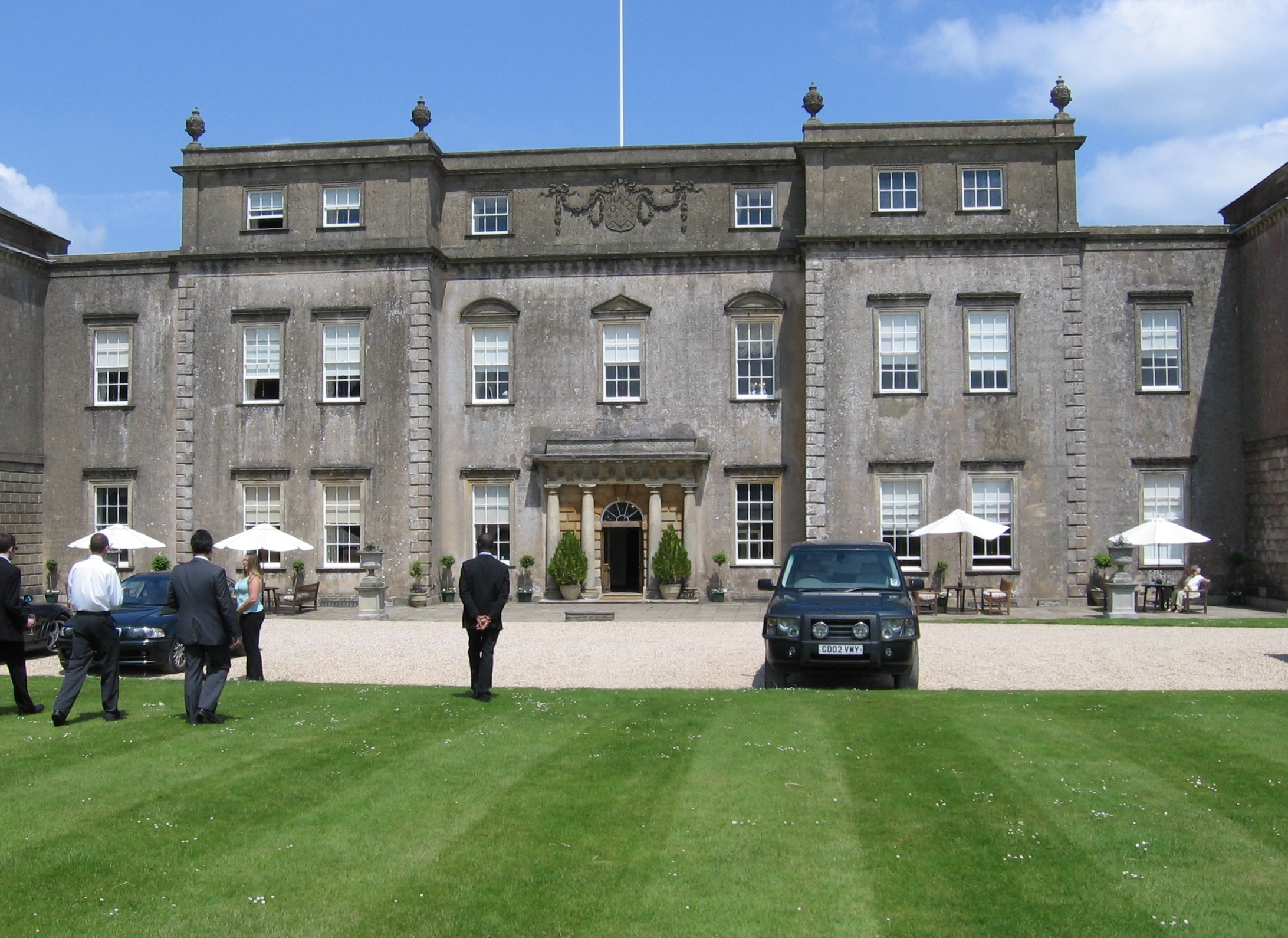 The frontage of Ston Easton Park